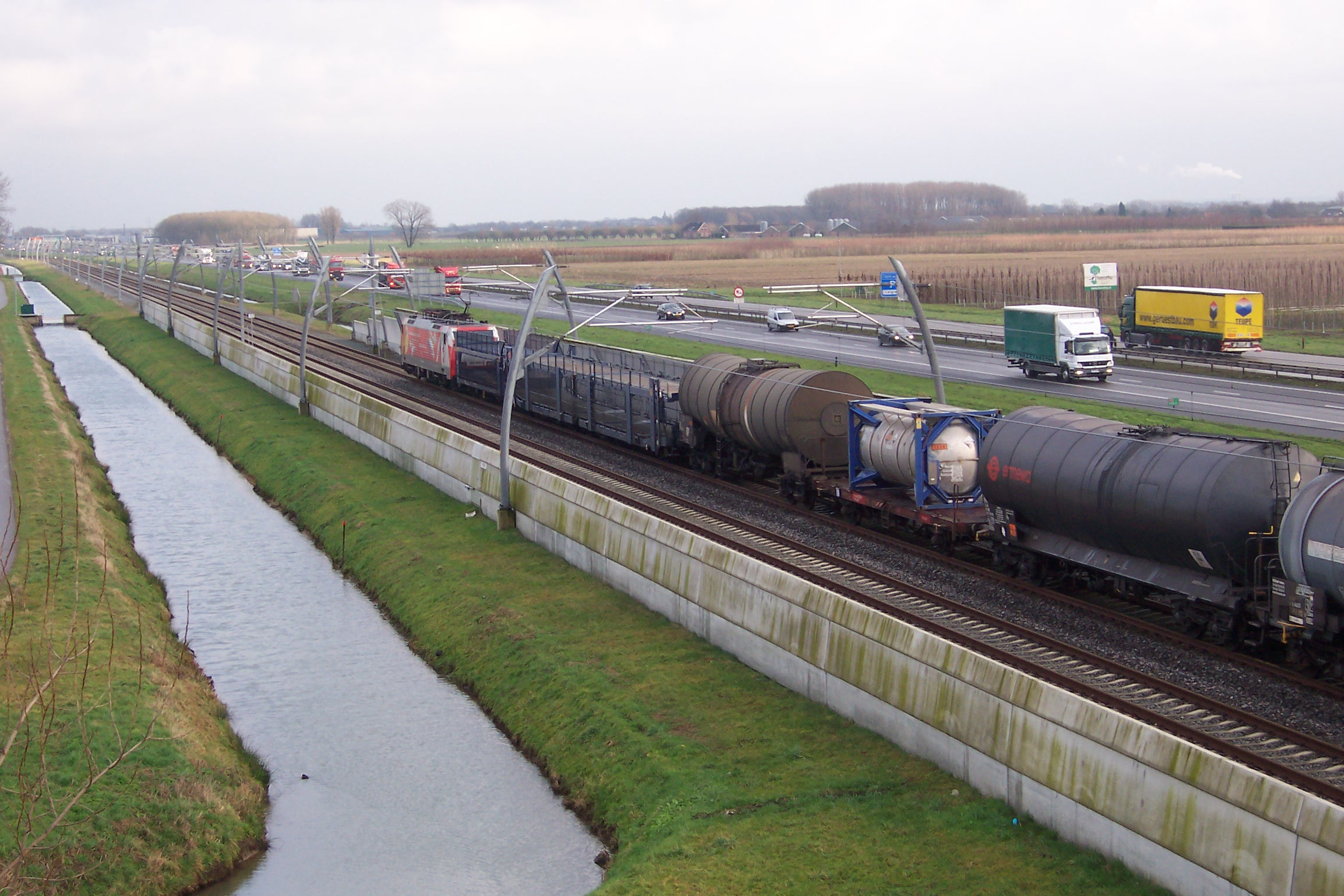 Mixed freight train Betuweroute near Dodewaard, the Netherlands